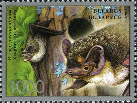 Stamp of Belarus